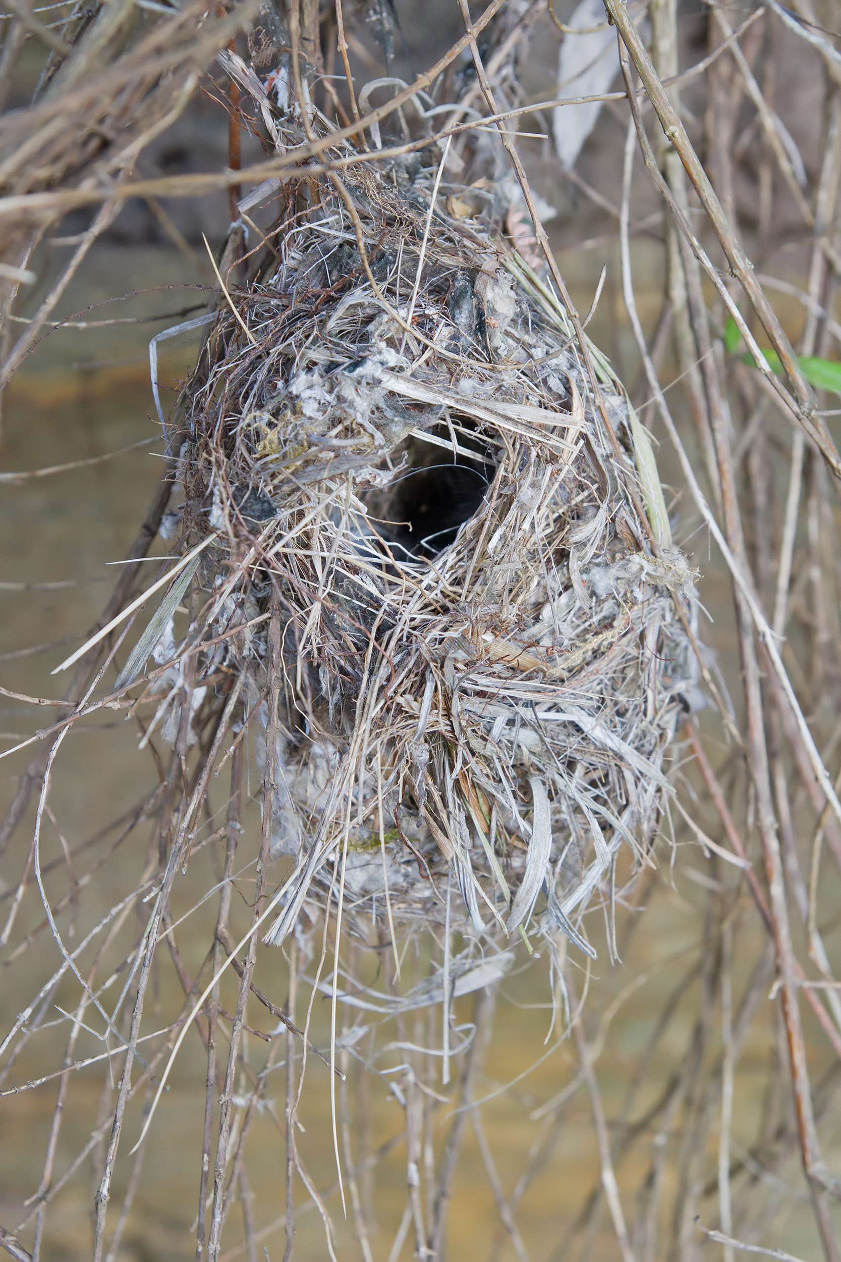 A recently used Brown Thornbill (Acanthiza pusilla) nest, Austin's Ferry, Tasmania, Australia